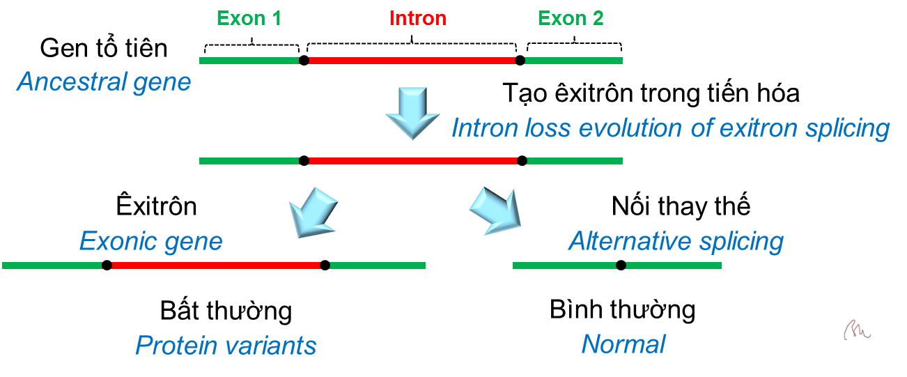 An ancestor intron can be handled differently, creating an exitron.